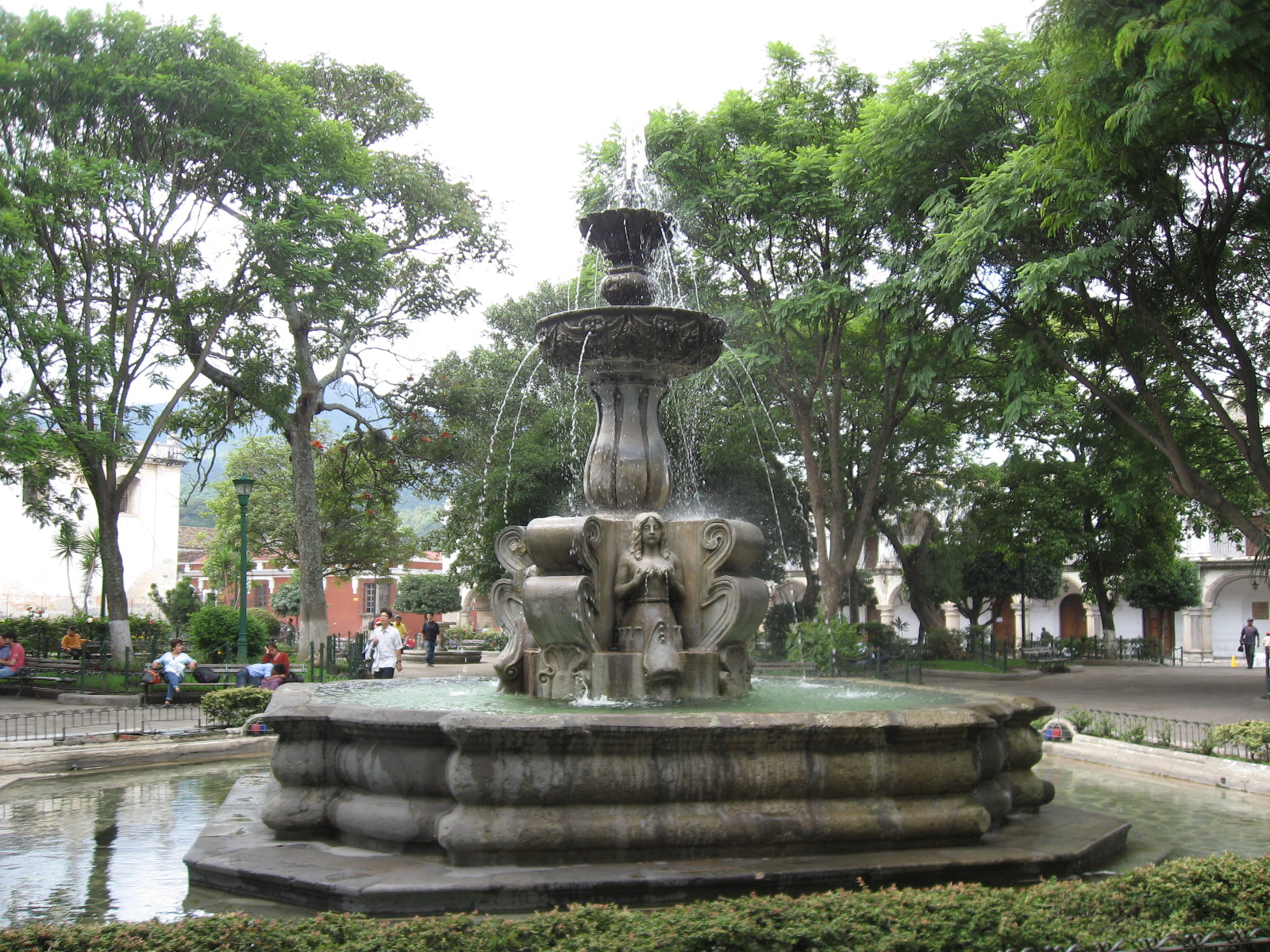 A photo of the reconstructed fountain in the square of La Antigua Guatemala